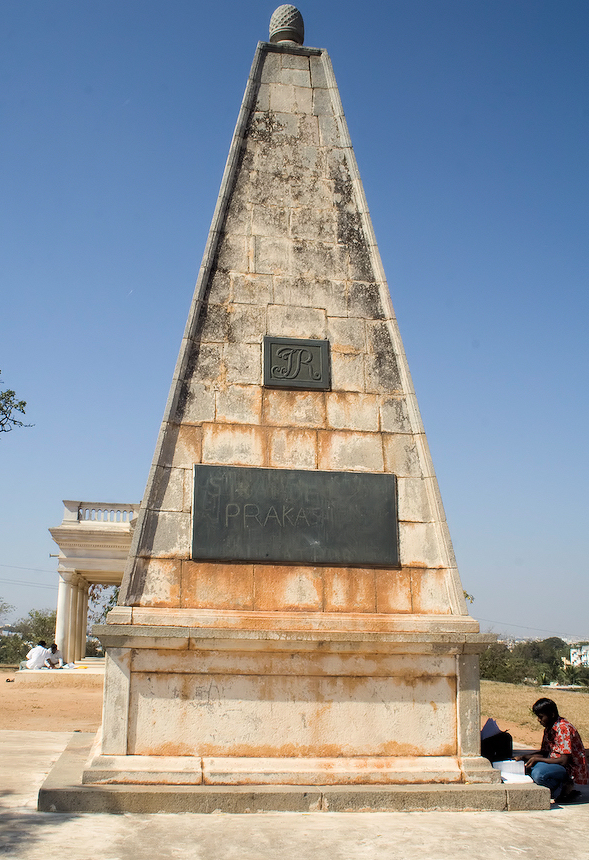 Tomb of Michel Joachim Marie Raymond known as Monsieur Raymond, a French General of the Nizam's military and founder of a Gun foundry in Hyderabad, Andhra Pradesh,India